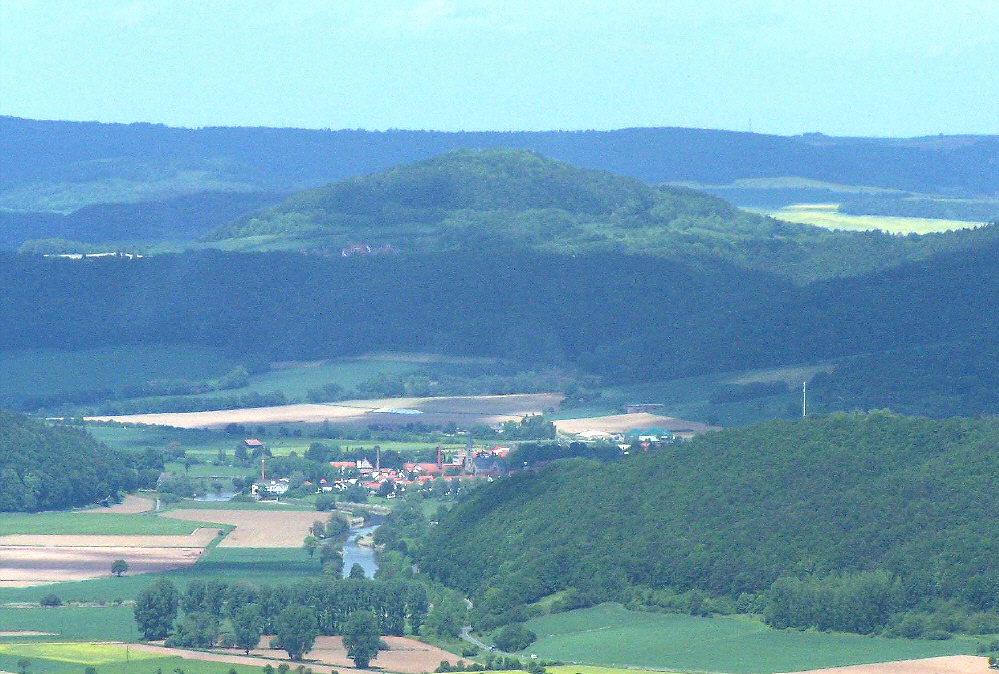 The Hülfensberg near Wanfried.